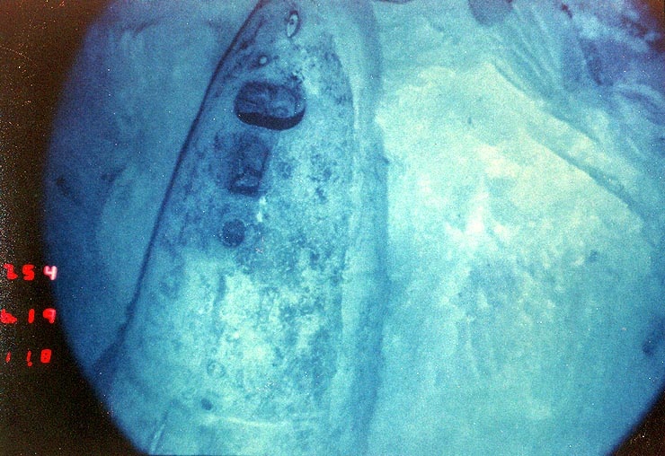 Photo #: NH 97220-KN Bow section of sunken USS Scorpion, 1986 Wreck of USS Scorpion (SSN-589) "Atlantic Ocean (August 1986)....Depth 10,000 feet, 400 miles southwest of the Azores; view of the bow section of the nuclear-powered attack submarine USS Scorpion (SSN-589) where it rests on the ocean floor. Note the forward messenger bouy cavity and escape trunk access hatches." Quoted from the caption released with this photo in 1995. The view was taken by Woods Hole Oceanographic Institute. This image looks down with the submarine's port side to the left. See Photo # NH 70305 for a view of this area taken before Scorpion's loss, and Photo # USN 1136658 for a view of this area of the wreck taken in October 1968. Official U.S. Navy Photograph, from the collections of the Naval Historical Center.